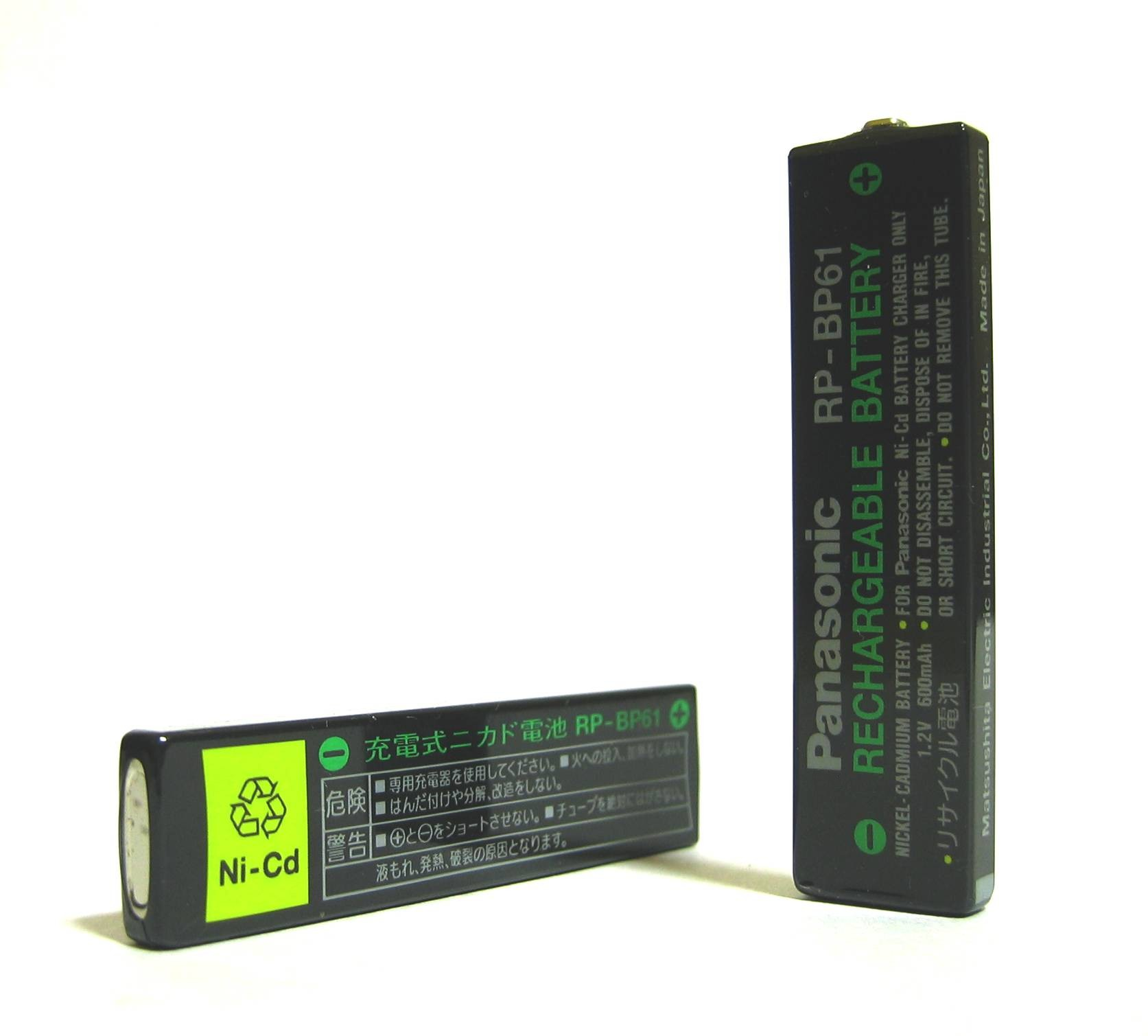 This is a gum-type Ni-Cd battery that was made by Panasonic.